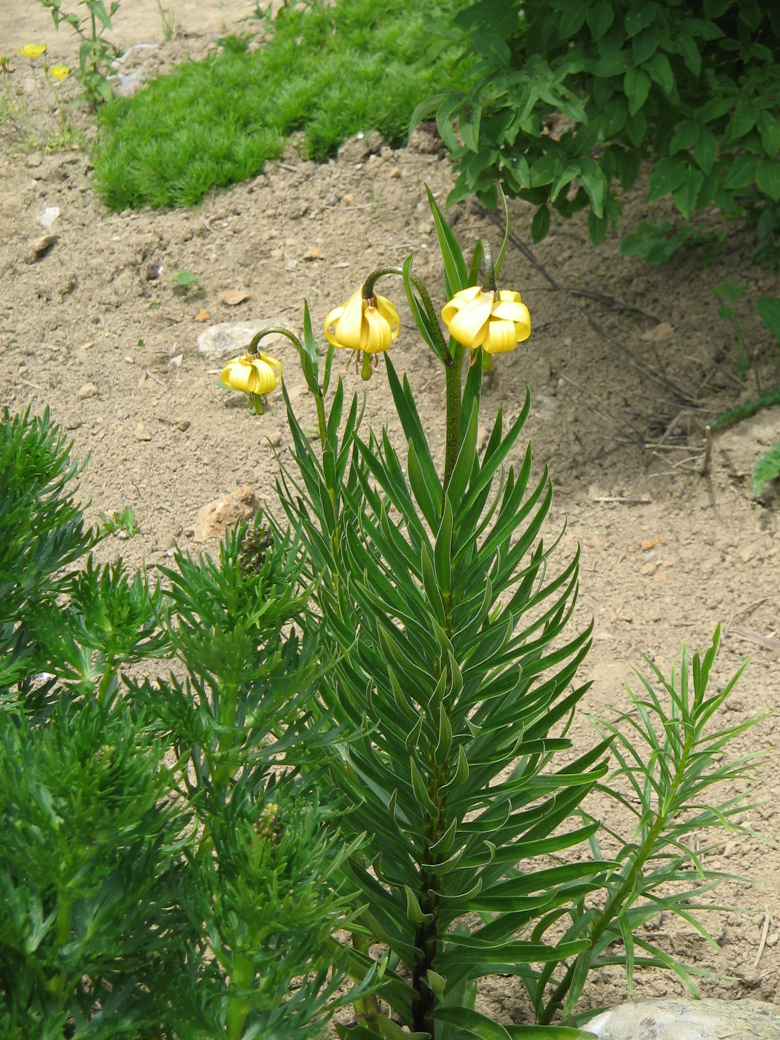 Lilium jankae